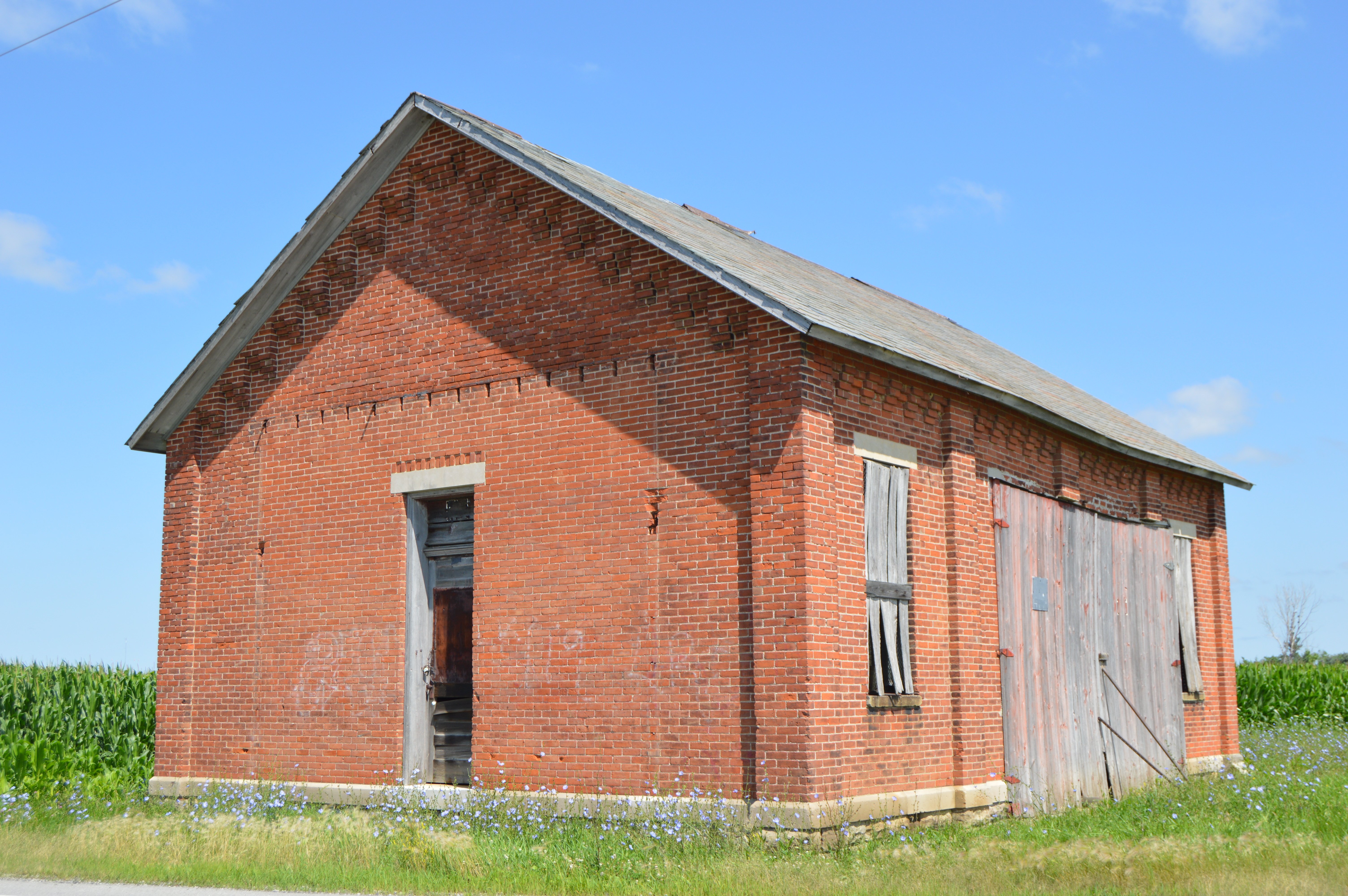 A former school on the northwestern corner of the junction of D and 4 Roads (here State Route 65) northeast of Leipsic in Van Buren Township, Putnam County, Ohio, United States.